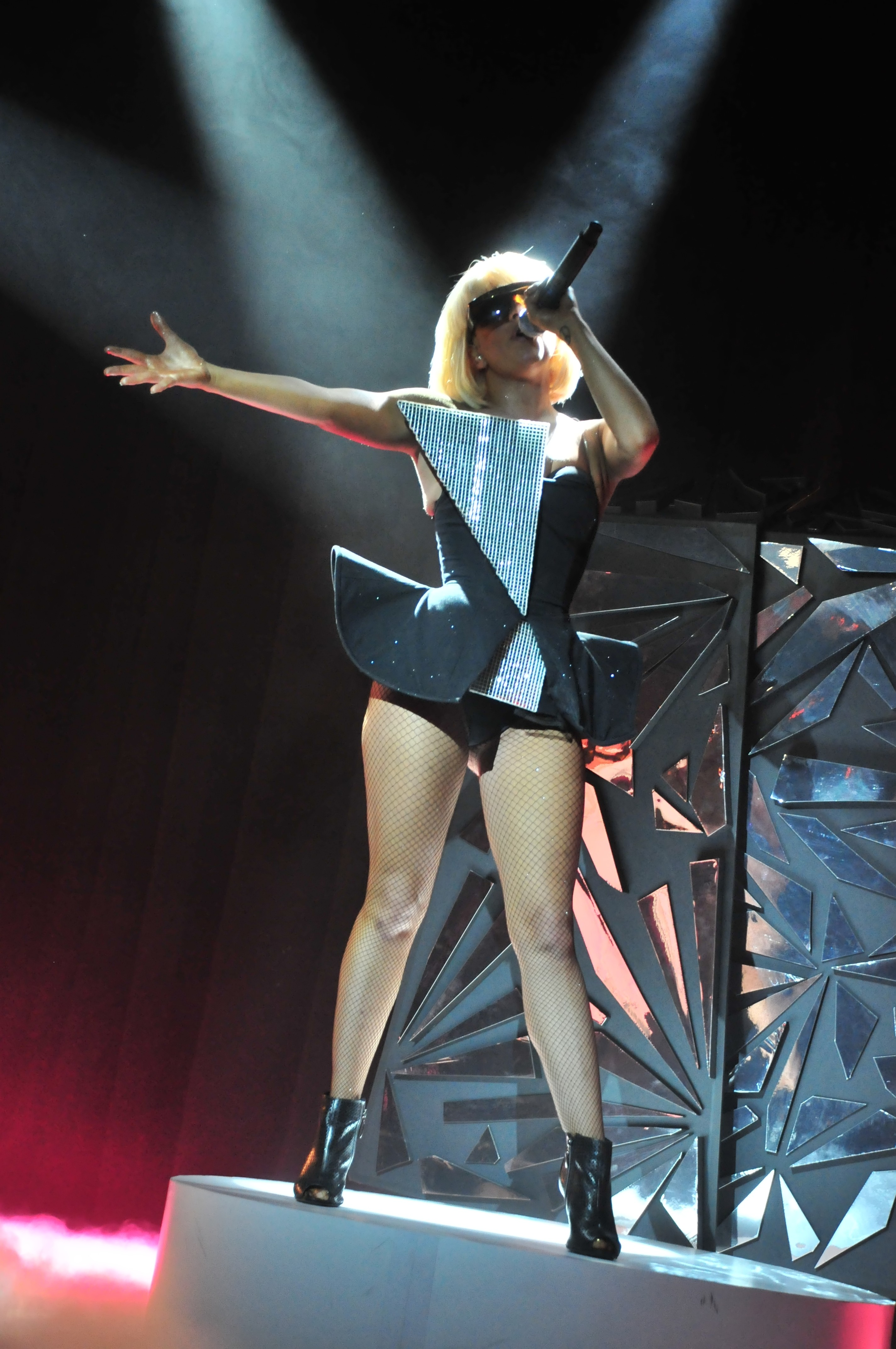 Lady Gaga performing "Paparazzi" on The Fame Ball Tour